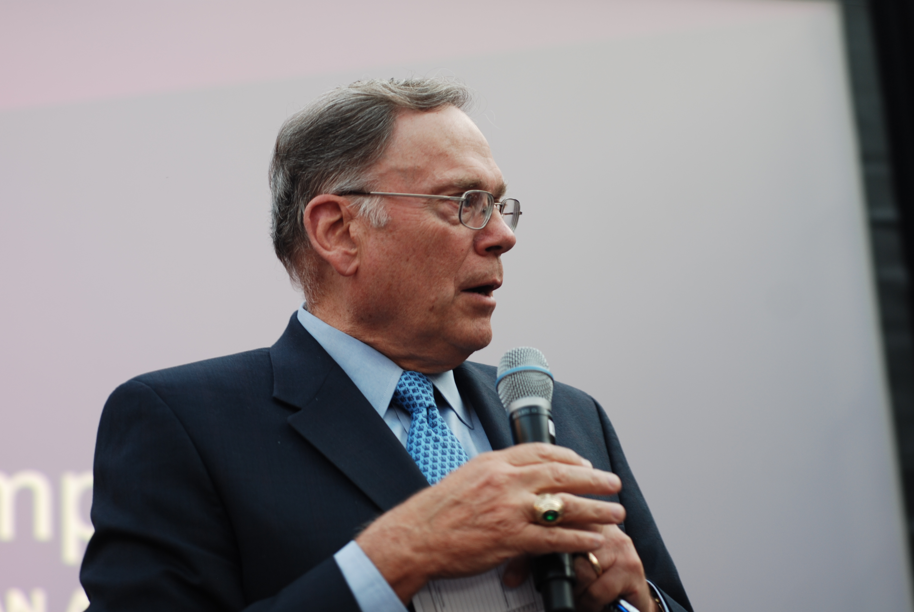 Leidos Inaguration party in Reston Town Center: John P. Jumper